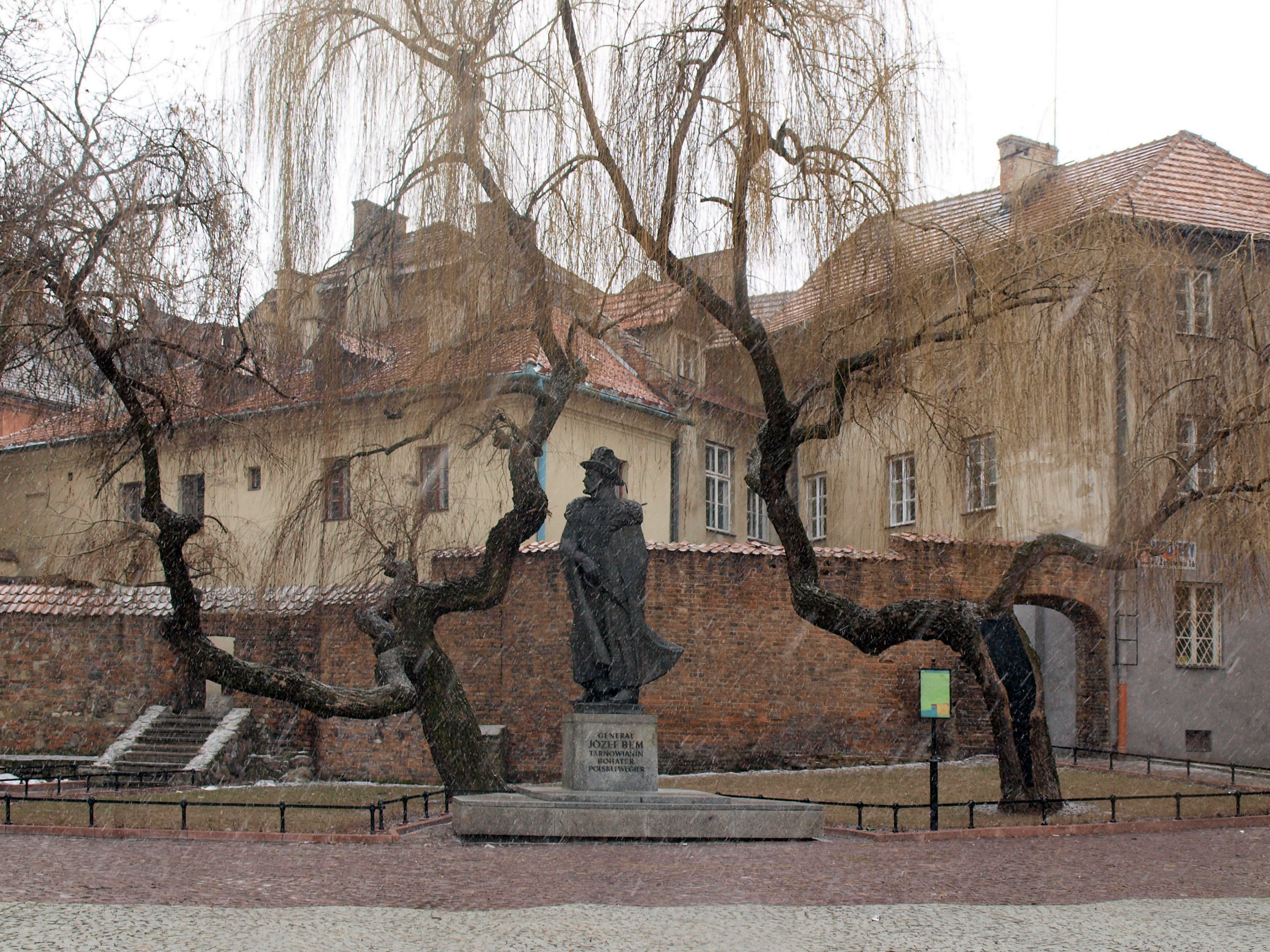 Tarnow, a monument of General Jozef Bem